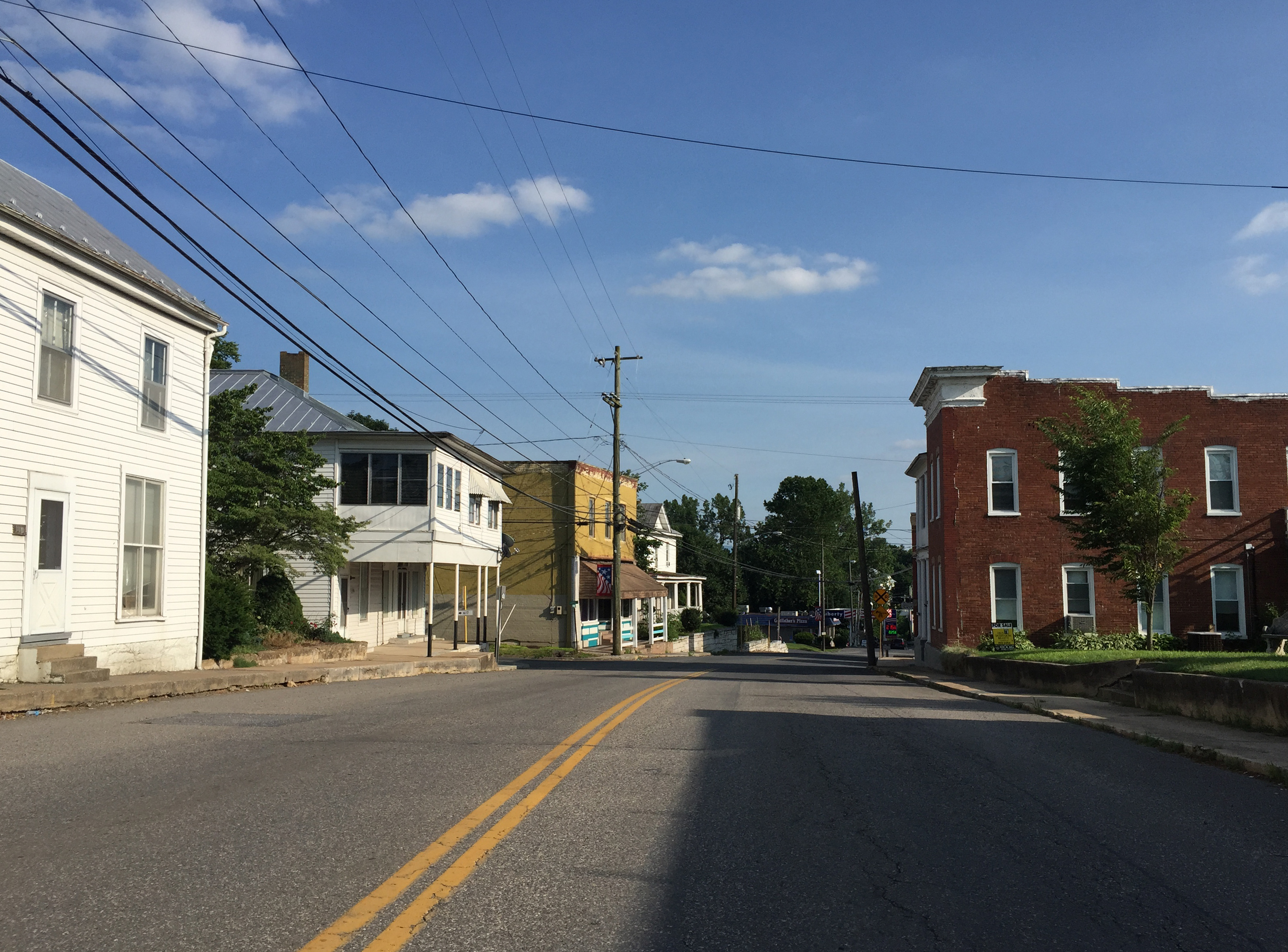 View south along Virginia State Route 42 (Main Street) at Rockingham Street in Timberville, Rockingham County, Virginia